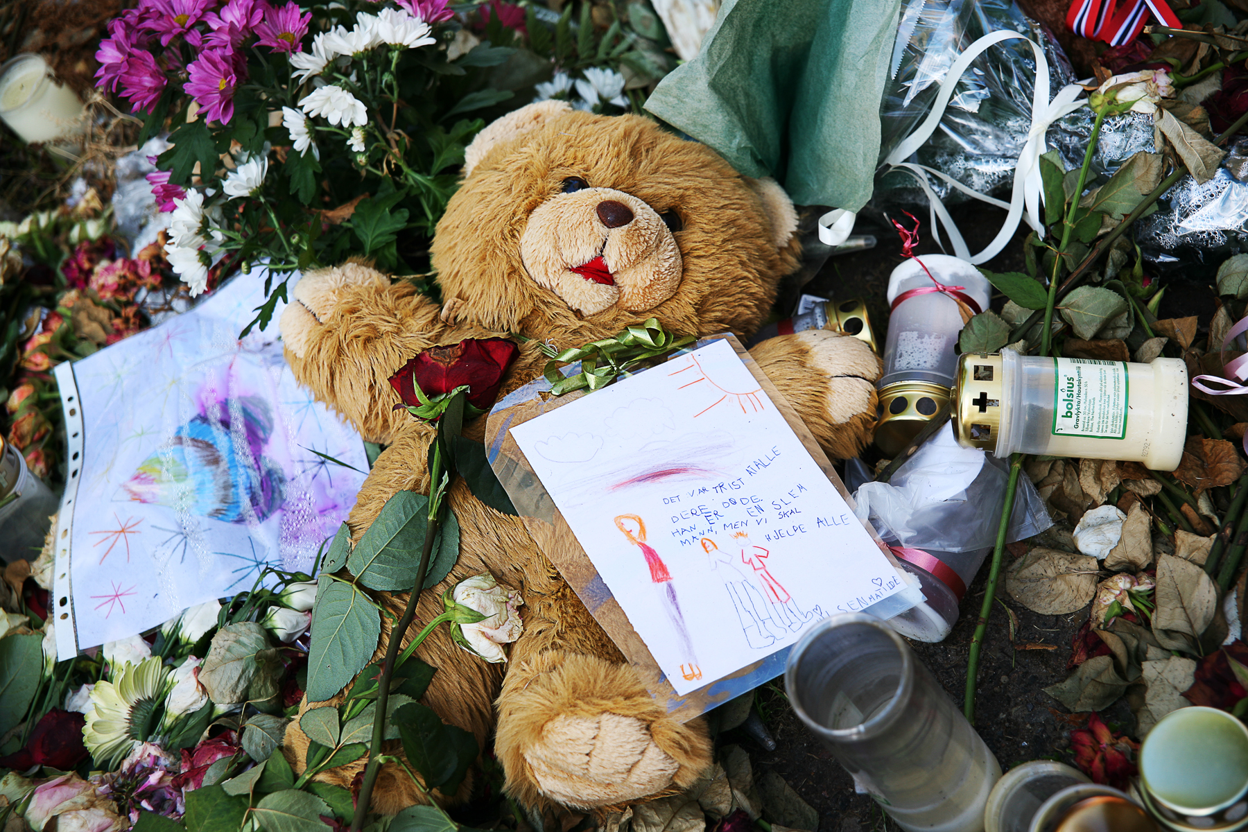 A sea of flowers and teddybears outside Oslo cathedral commemorating the victims of the massacre in Oslo and on Utøya.